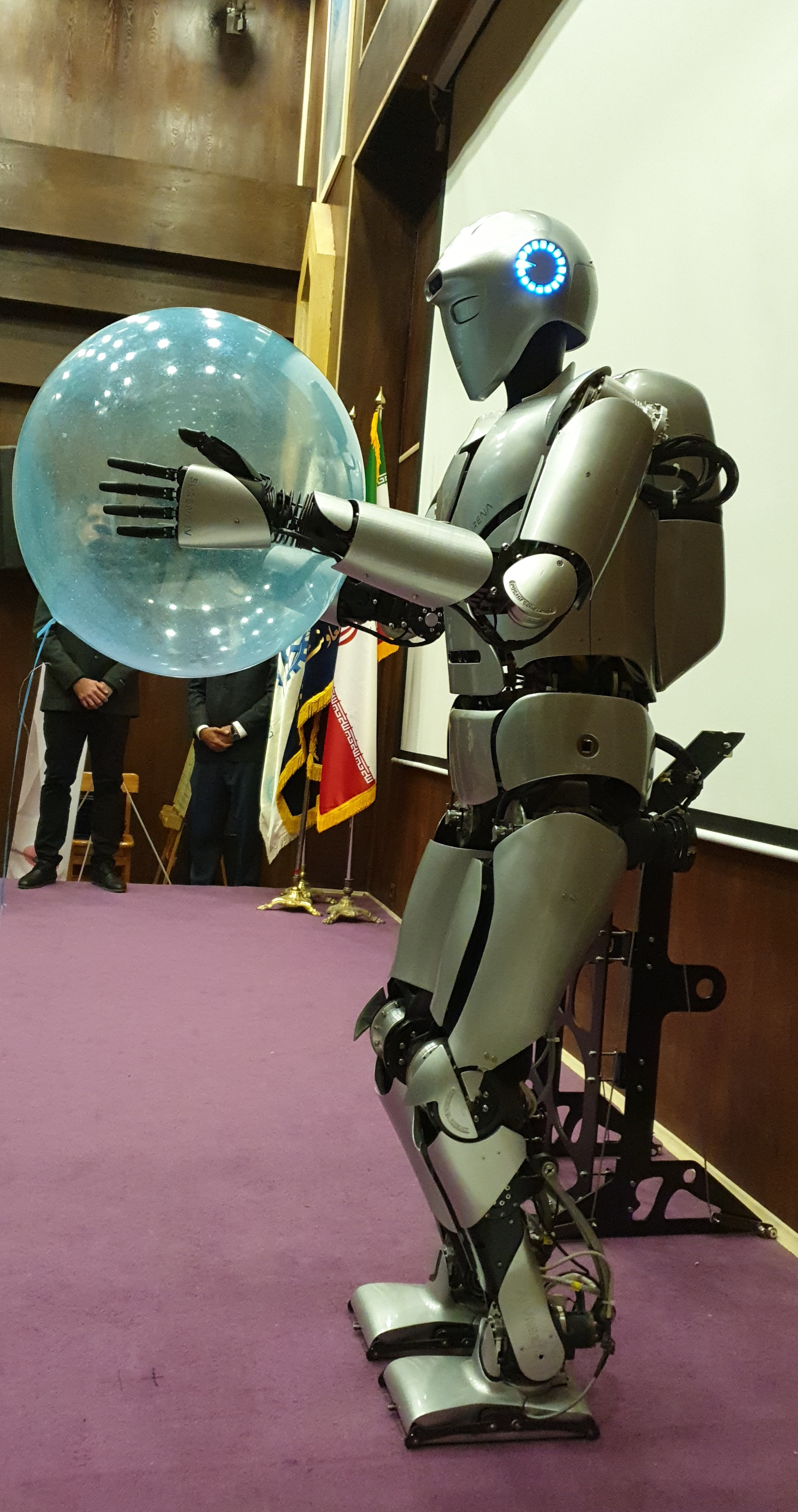 Surena IV